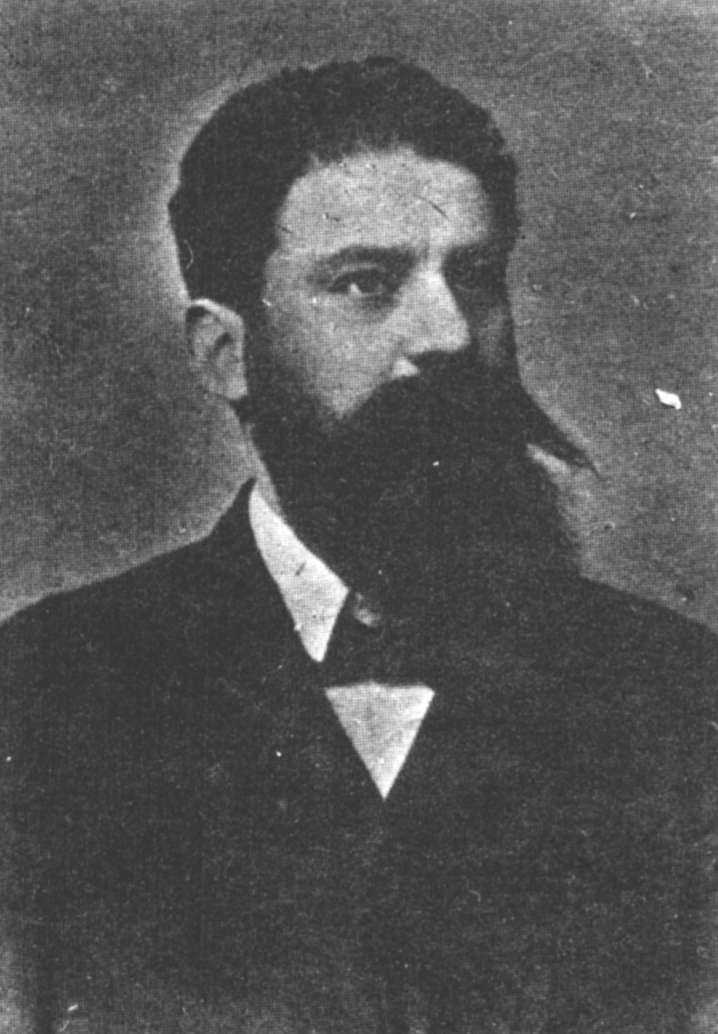 Photograph of the Romanian writer and politician Constantin Stere